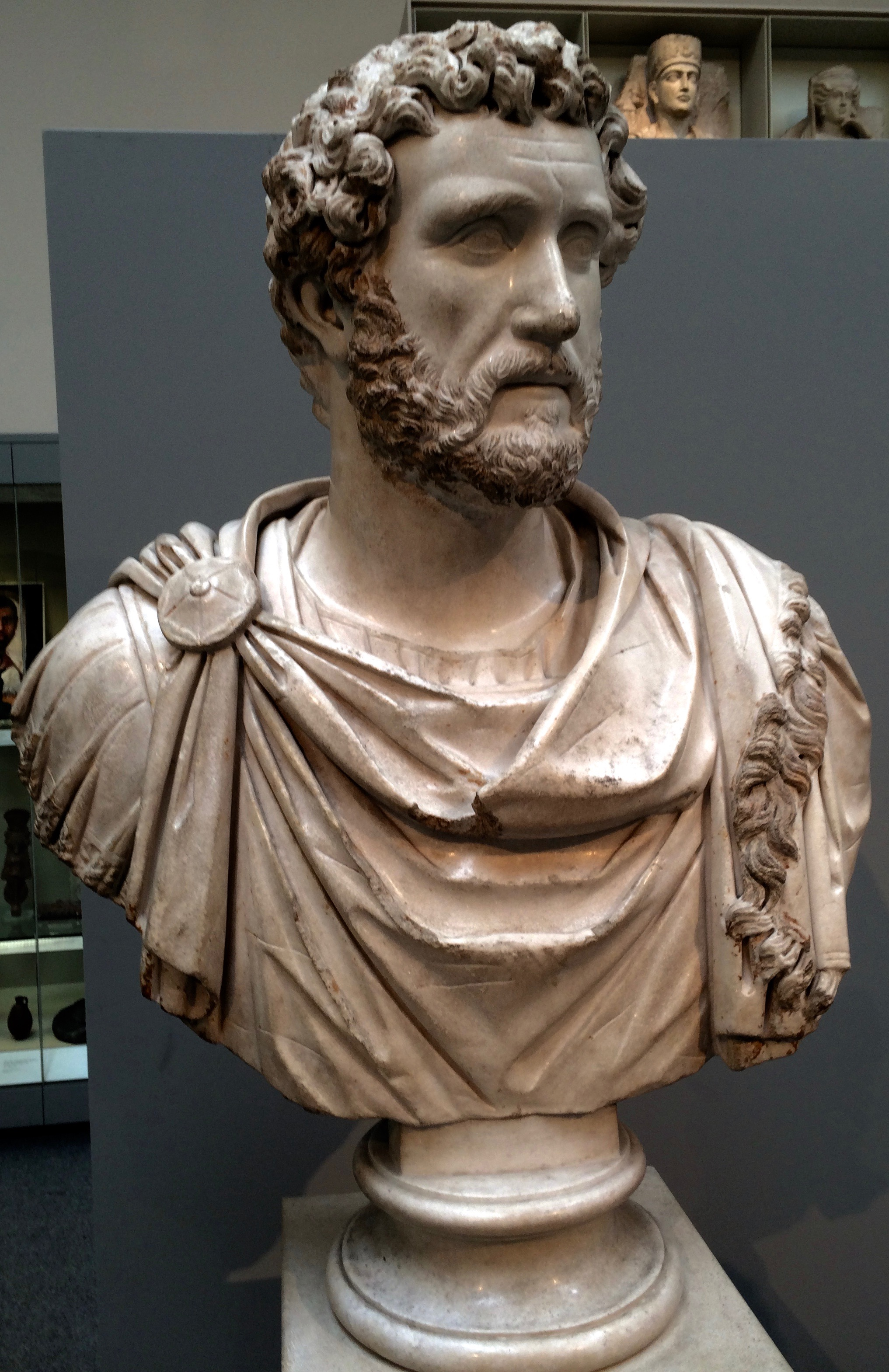 Marble bust of Emperor Anoninus Pius. About 140. From the House of Jason Magnus at Cyrene, North Africa. From the collection of the British Museum.